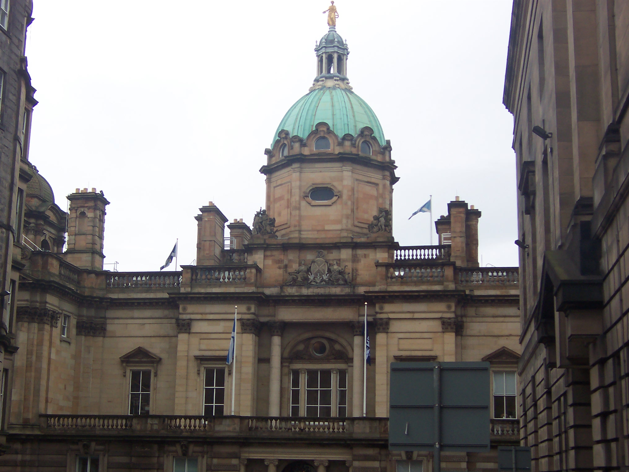 The headquarters of the Bank of Scotland in Edinburgh.